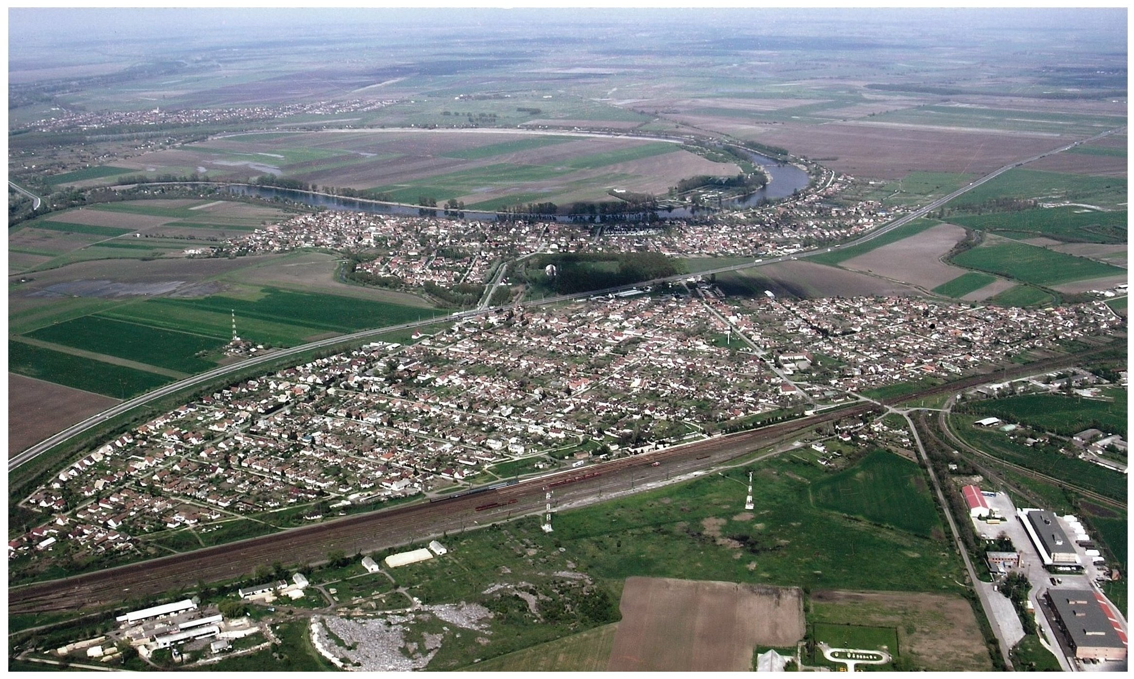 Aerial Photo from Szajol, Hungary